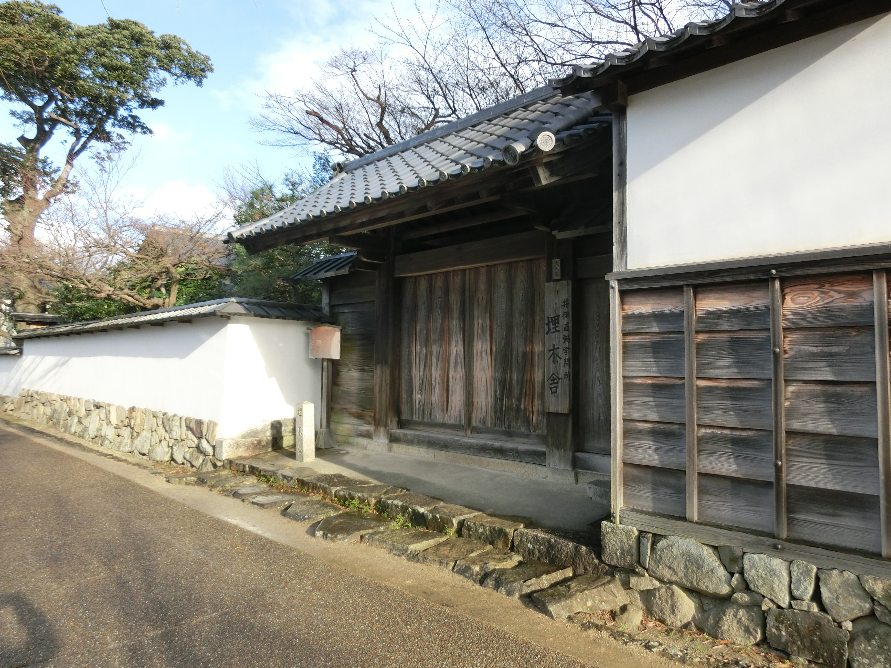 Umoregi-no-ya